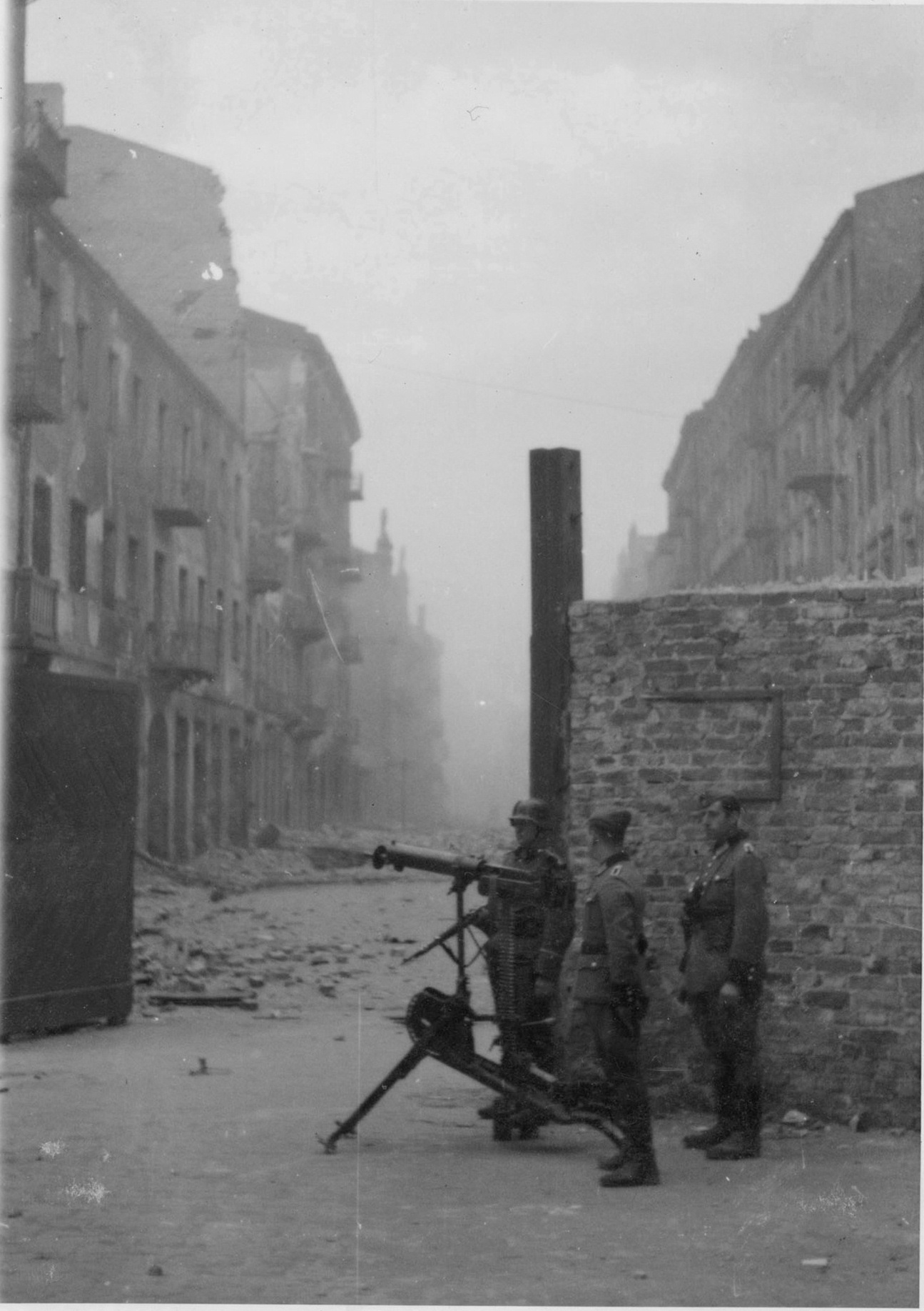 Sentries of german Police with heavy machine gun MG08 at the gate to the Ghetto.